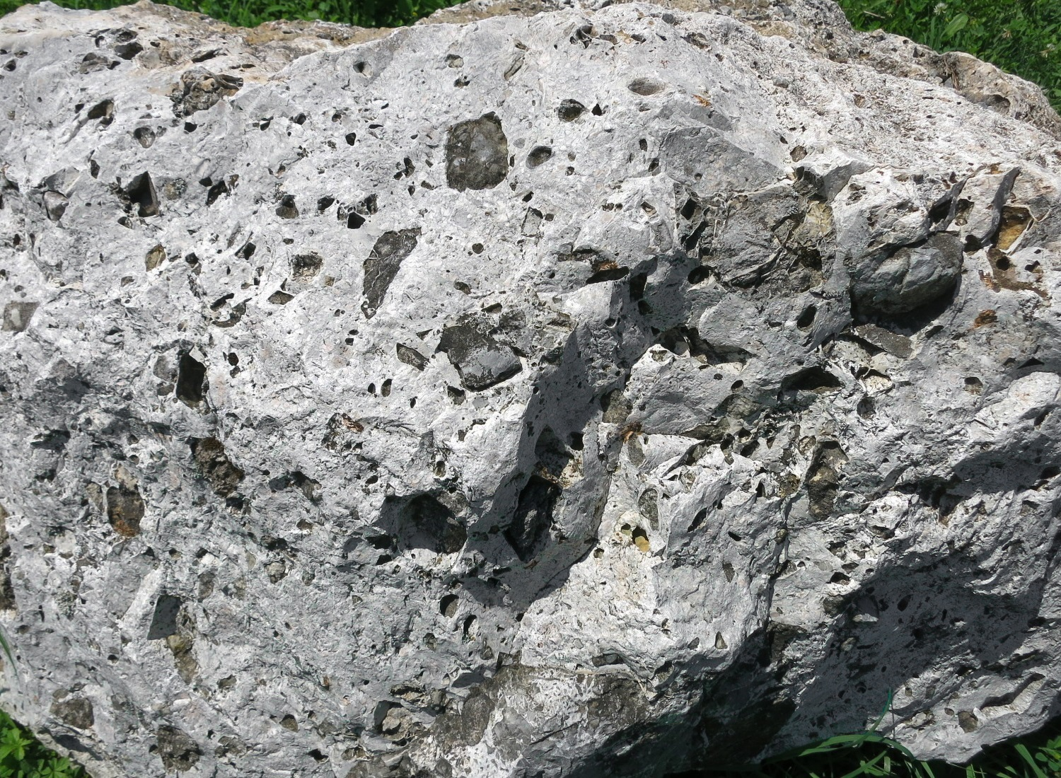 Lithothamnium limestone from Papuk mountain. This sample is exposed at the entrance of Papuk Nature Park in Velika village. (Požega-Slavonia County, Croatia)